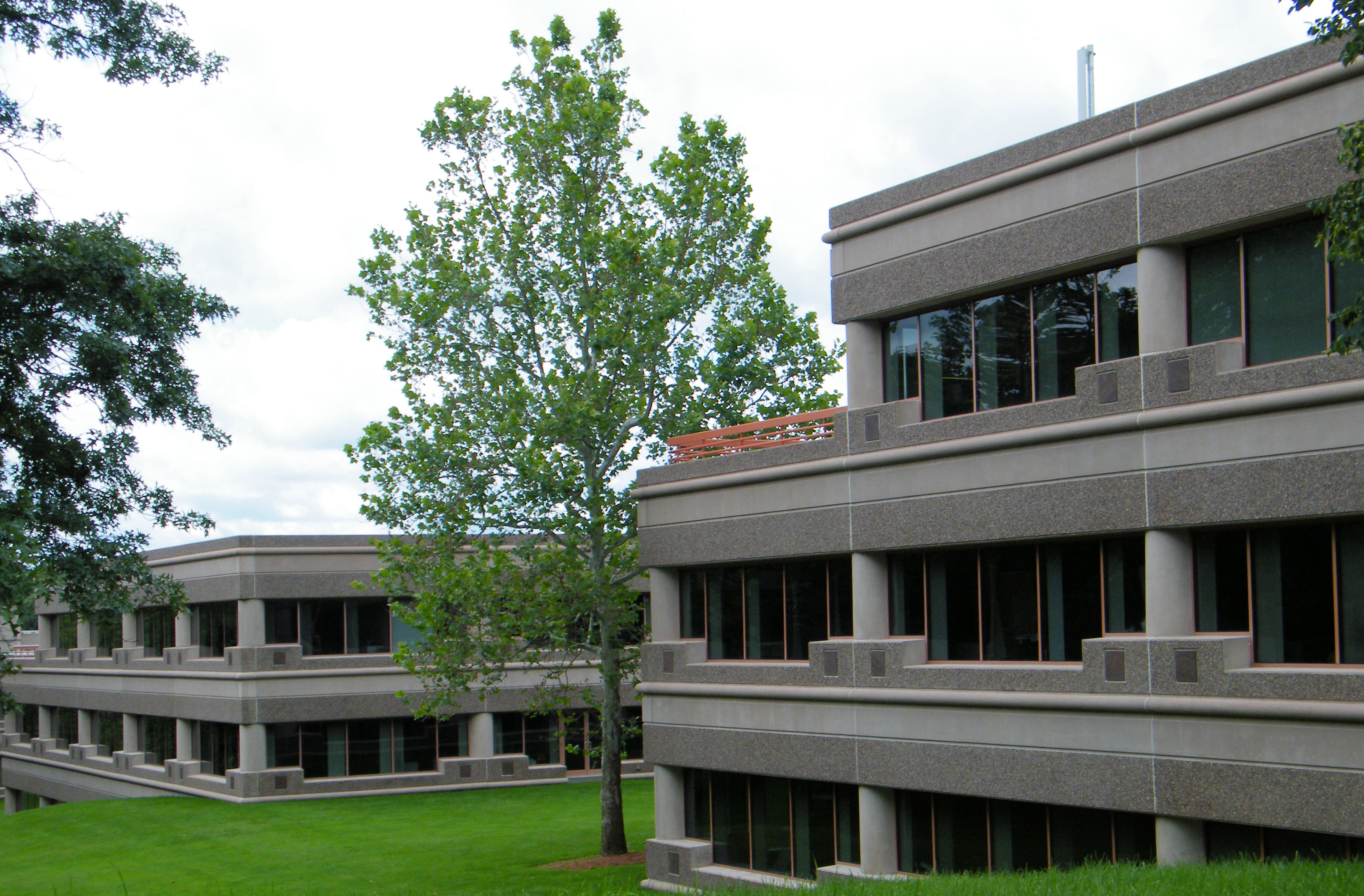 Former Novell headquarters in Waltham, Massachusetts. Novell moved its headquarters there from Provo, Utah, following its 2002 acquisition of Cambridge Technology Partners.